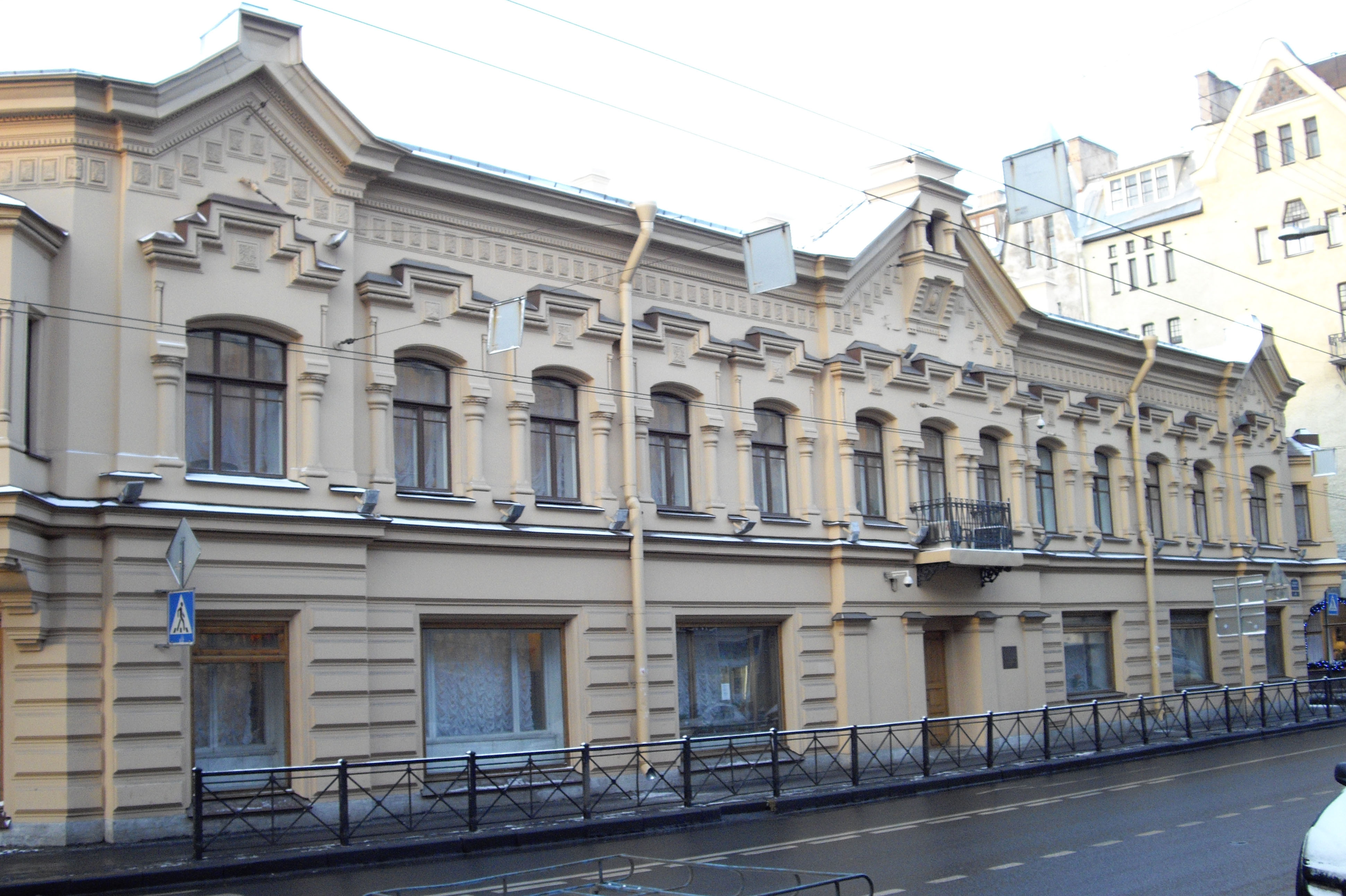 42, Bolshoy Prospekt (Petrograd Side), Saint Petersburg, mansion of Andrei Vassiliev (1878-1879, architect V. G. Shalamov)